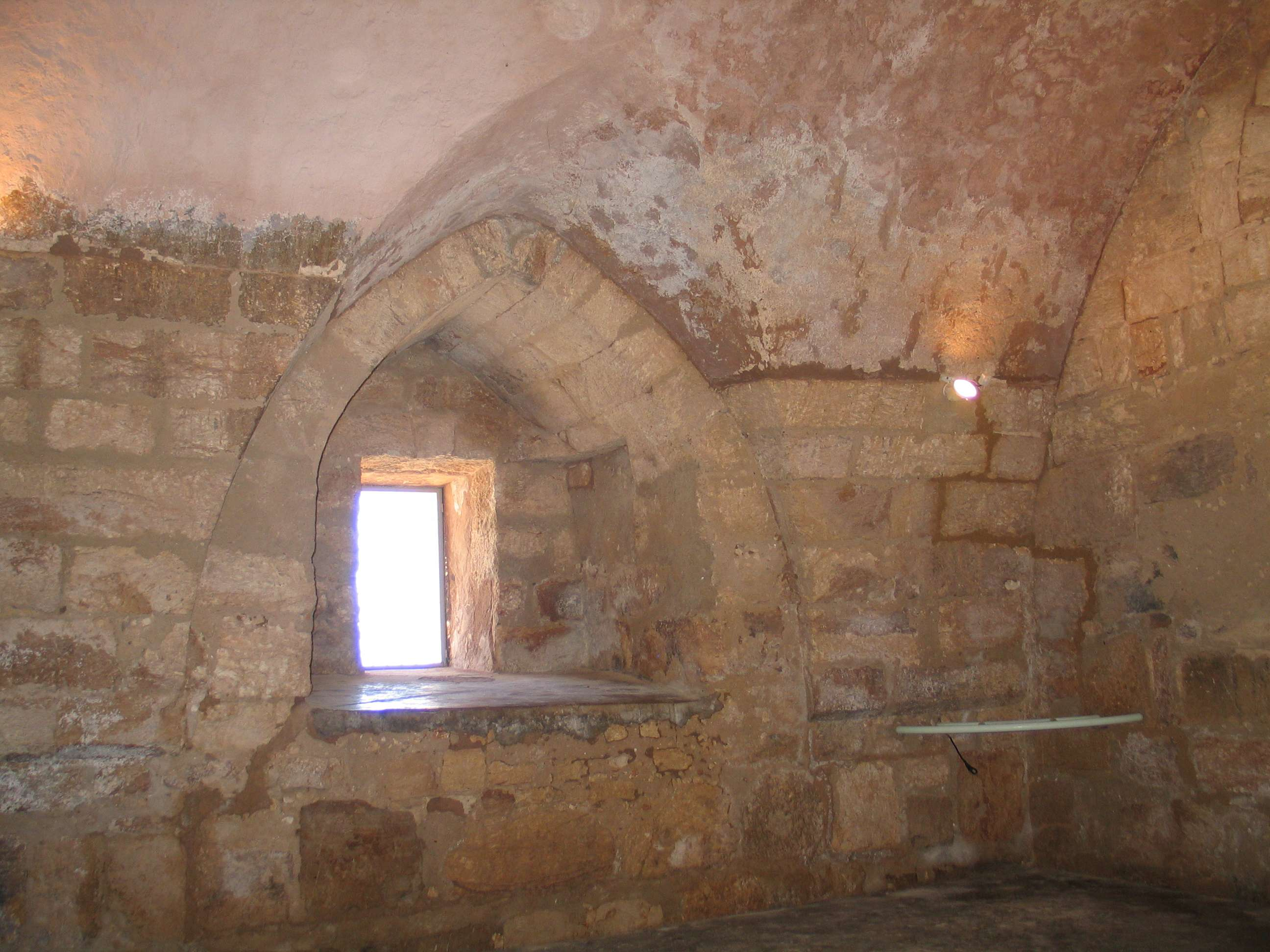 The crusader tower in Tzippori national park, Israel.